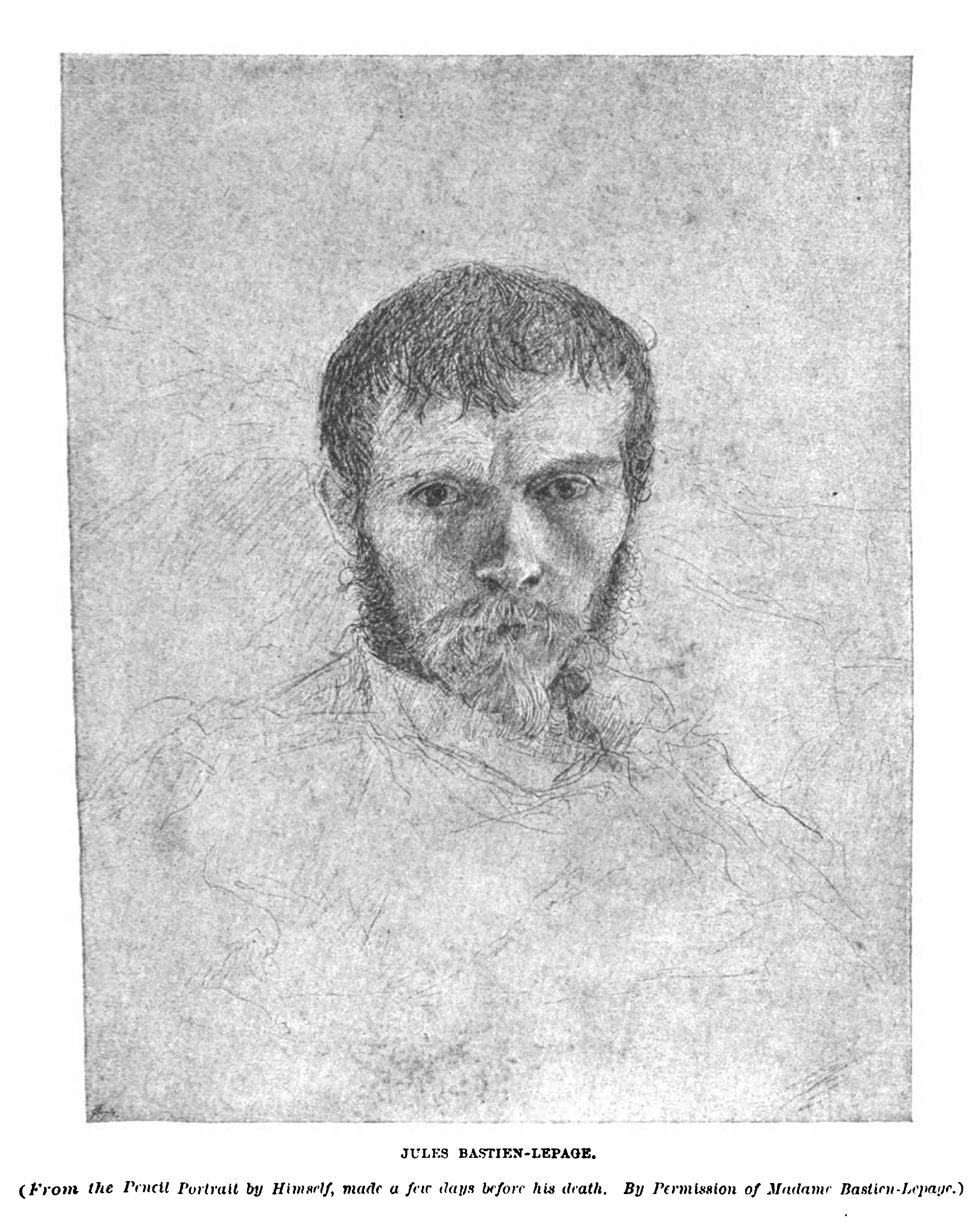 Jules Bastien-Lepage, self portrait a few days before his death in 1884